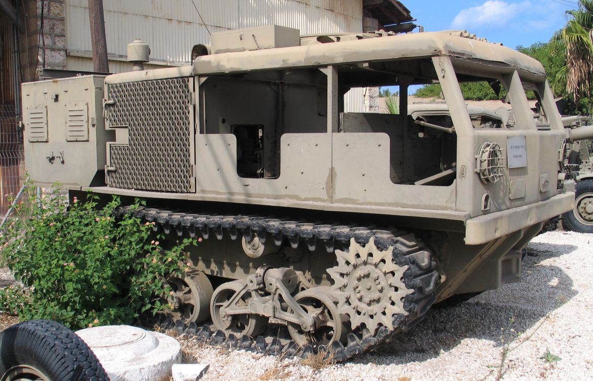 Description: M4A1 high-speed artillery tractor in Batey ha-Osef Museum, Tel Aviv, Israel. 2005. Source: Photo by me, User:Bukvoed.